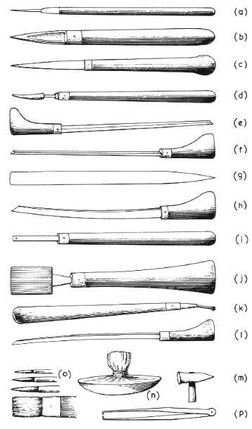 Engraving tools - (a) etching needle, (b) scraper, (c) and (d) burnishers, (e) graver, (f) scooper, (g) scraper for mezzotints, (h) stipple graver, (i) roulette for mezzotints, (j) shading tool for mezzotints, (k) roulette for mezzotints, (l) dry-point graver, (m) hammer, (n) dabber for applying the 'ground', (o) brushes for applying varnish (p) calliper compasses.